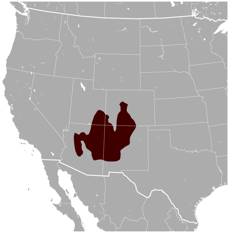 Geographical distribution of the Gunnison's Prairie Dog Cynomys gunnisoni. The map was created using the Generic Mapping Tools, GMT, version 5.1.1.